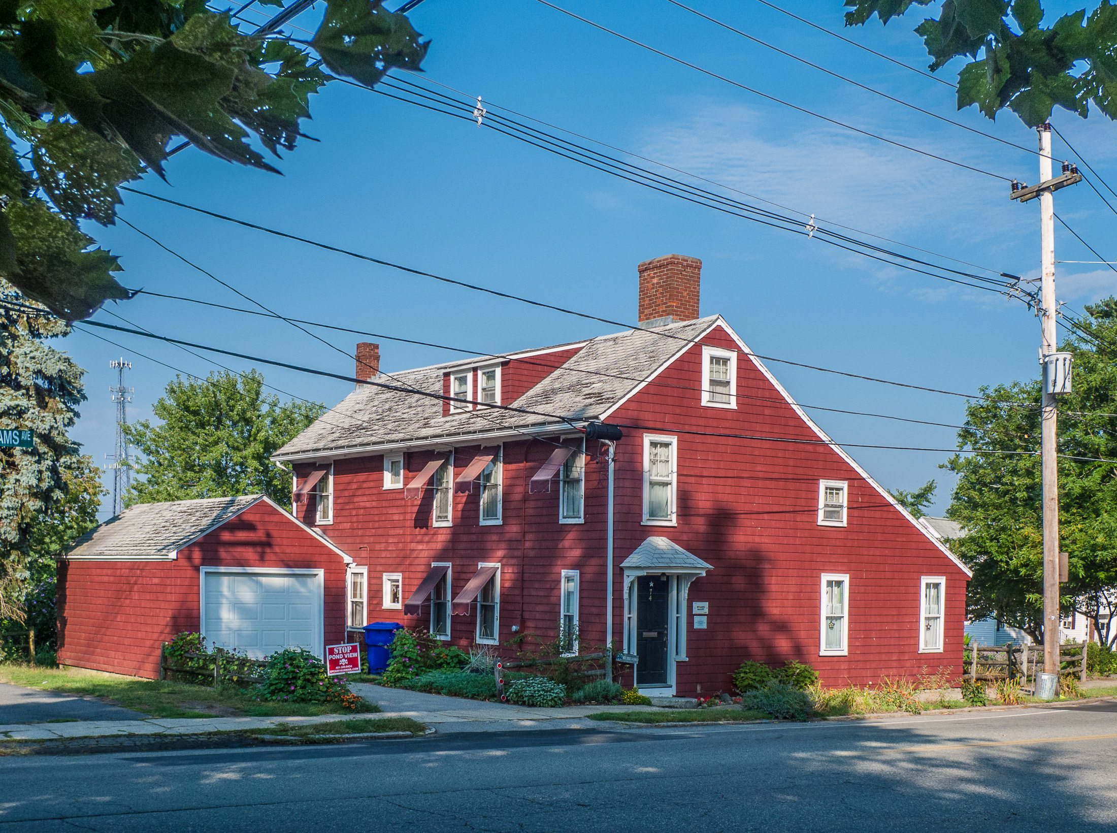 Nathaniel Daggett House, 74 Roger Williams Ave. East Providence